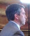 U.S. Secretary of State John Kerry conducts an interview with Fox News' James Rosen in Doha, Qatar, on March 5, 2013. [State Department photo/ Public Domain]